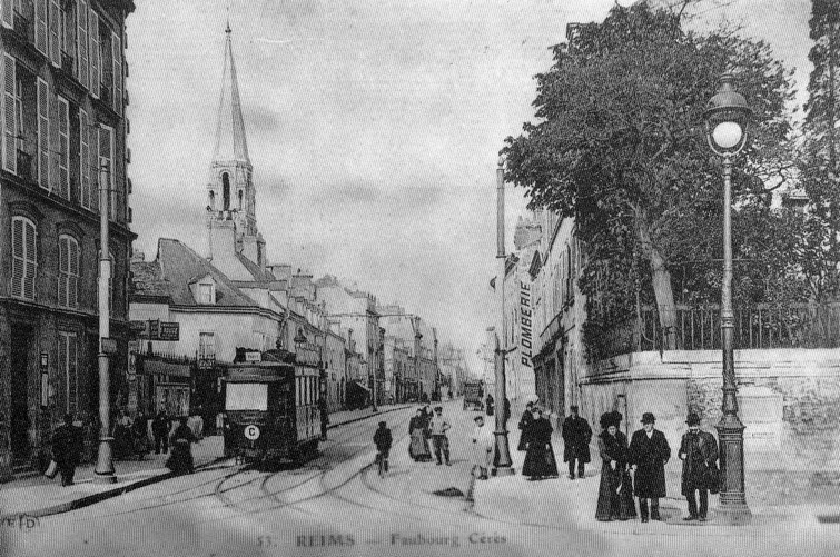 Old tramway of Reims